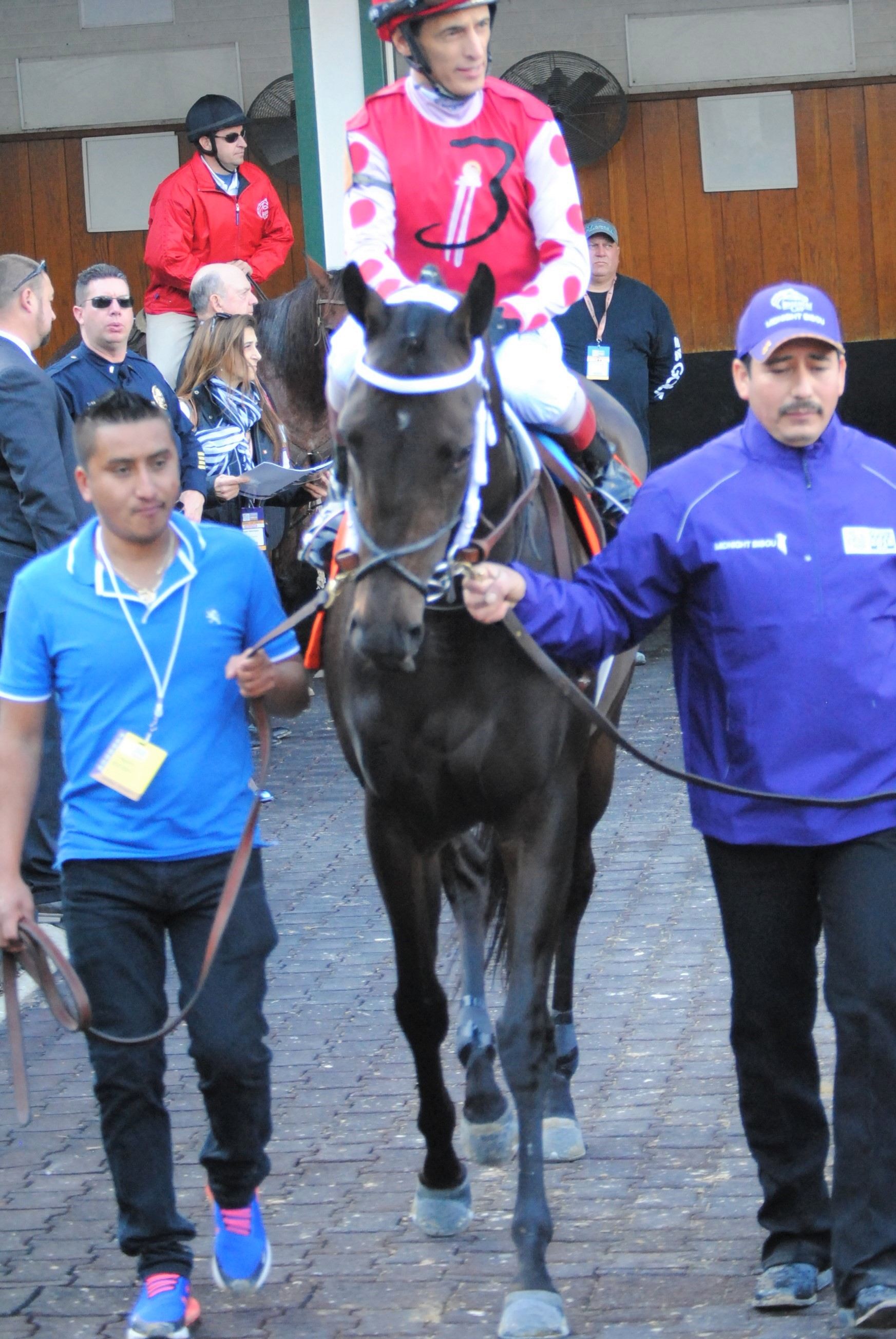 Midnight Bisou at the 2018 Breeders' Cup with jockey John Velazquez